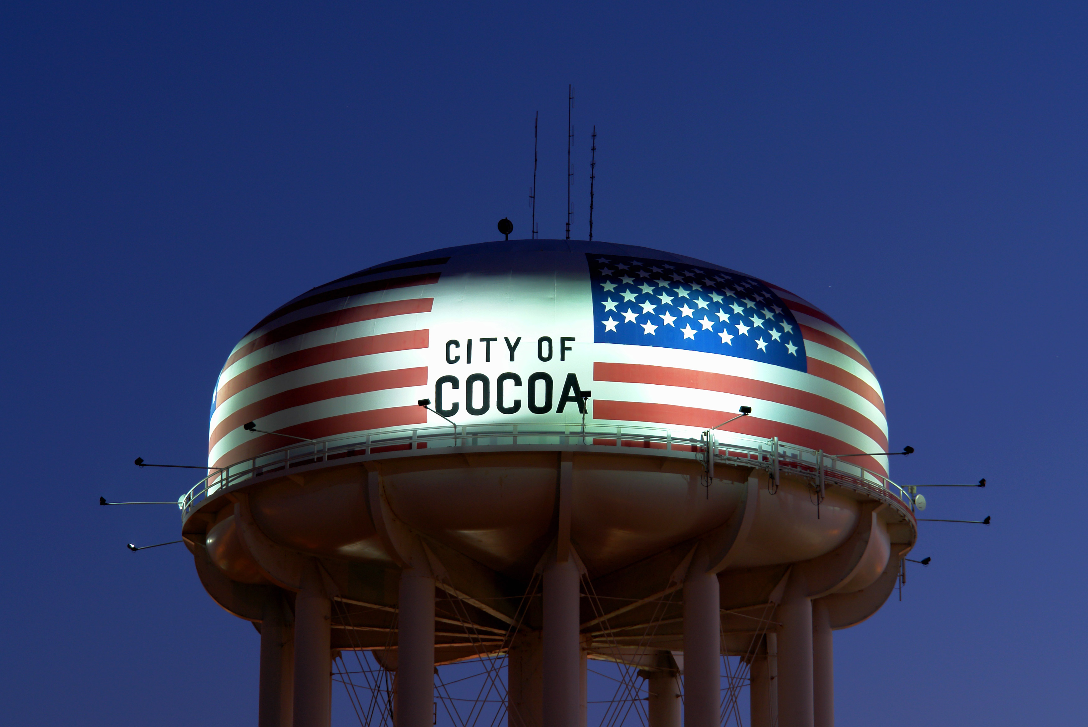 Watertower of Cocoa